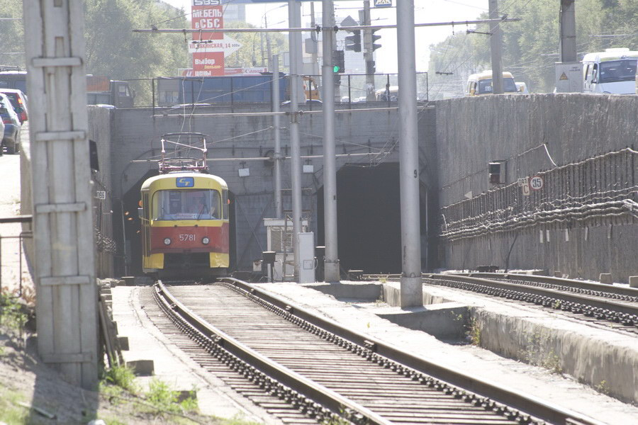 North gate of Volgograd rapid tram tunnel